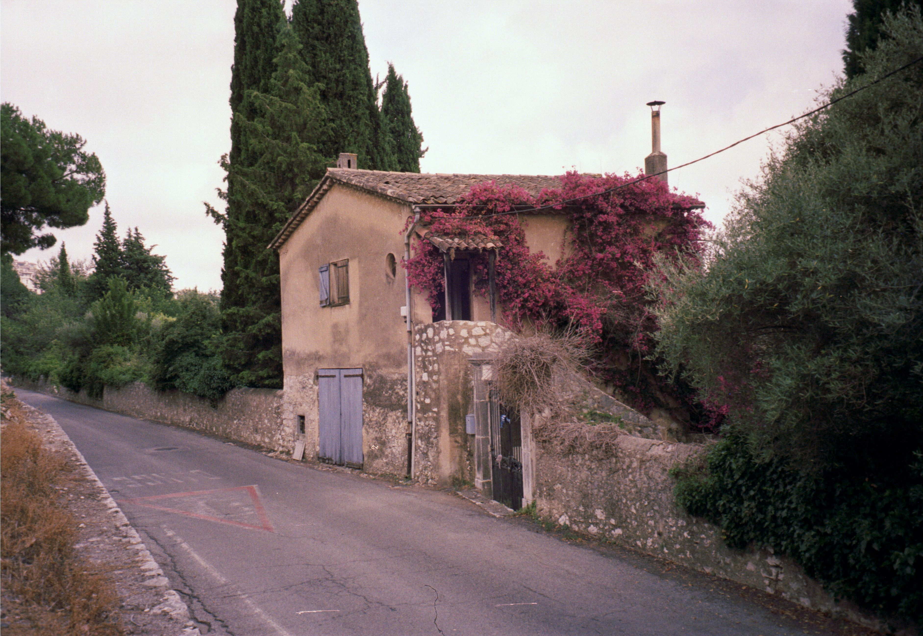 The house where James Baldwin lived and died in Saint Paul de Vence, France, July 2009